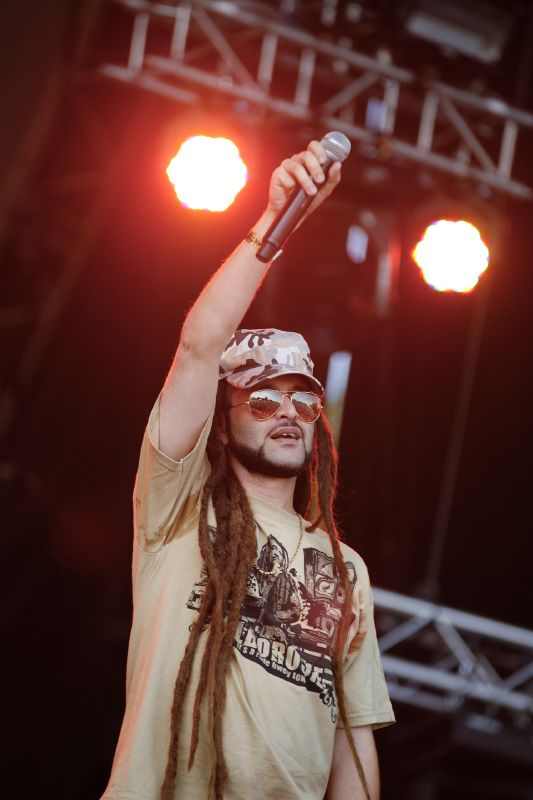 Alborosie, an italian reggae singer